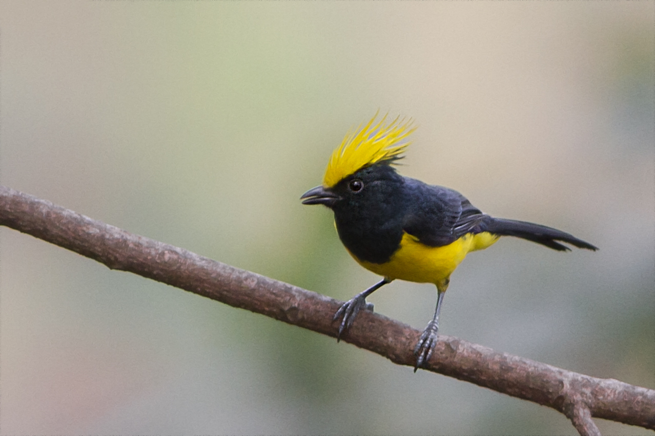 The species Sultan Tit had been photographed during the bird photography tour of GoingWild LLP in Mahananda Wildlife Sanctuary at Darjeeling in that state of West Bengal in India.